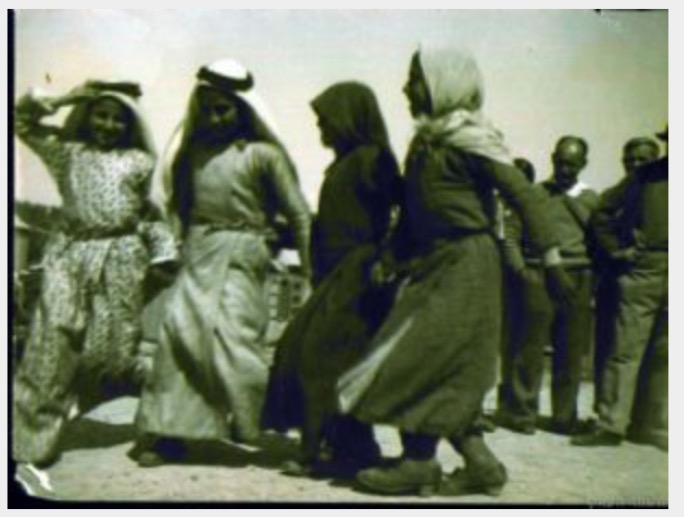 Abu Shusha before the Nakba